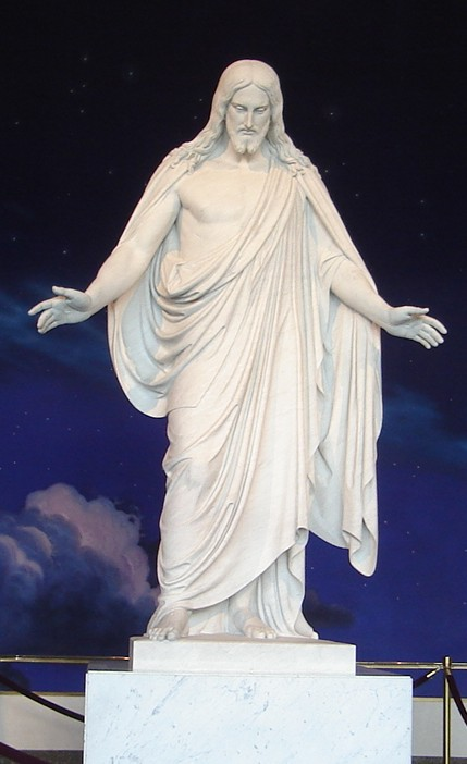 Replica of Christus (1838) by Bertel Thorvaldsen (1770–1844); this replica is located in the Temple Square North Visitors Center of The Church of Jesus Christ of Latter-day Saints, Salt Lake City, Utah.